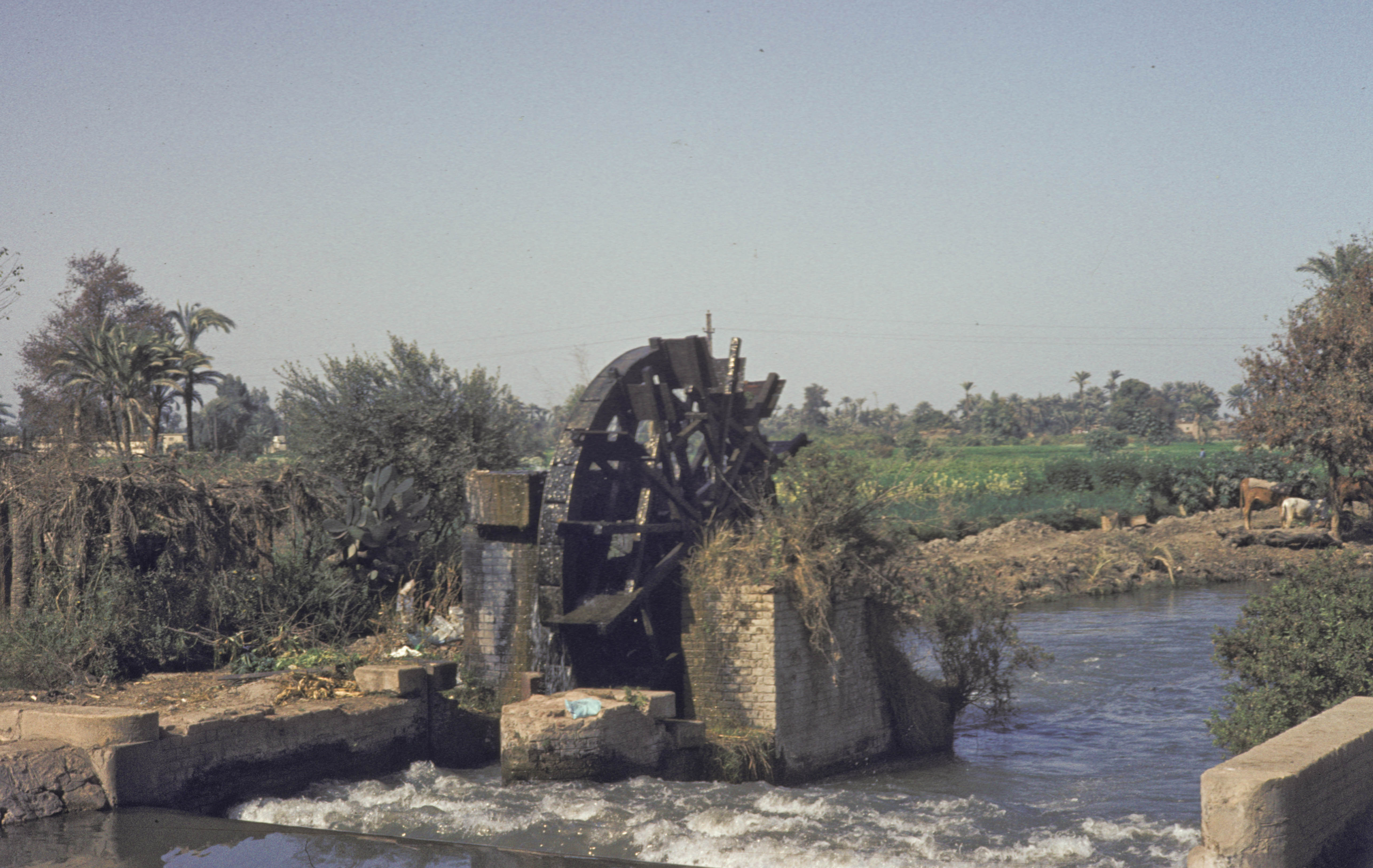 Egypt. Water wheel.